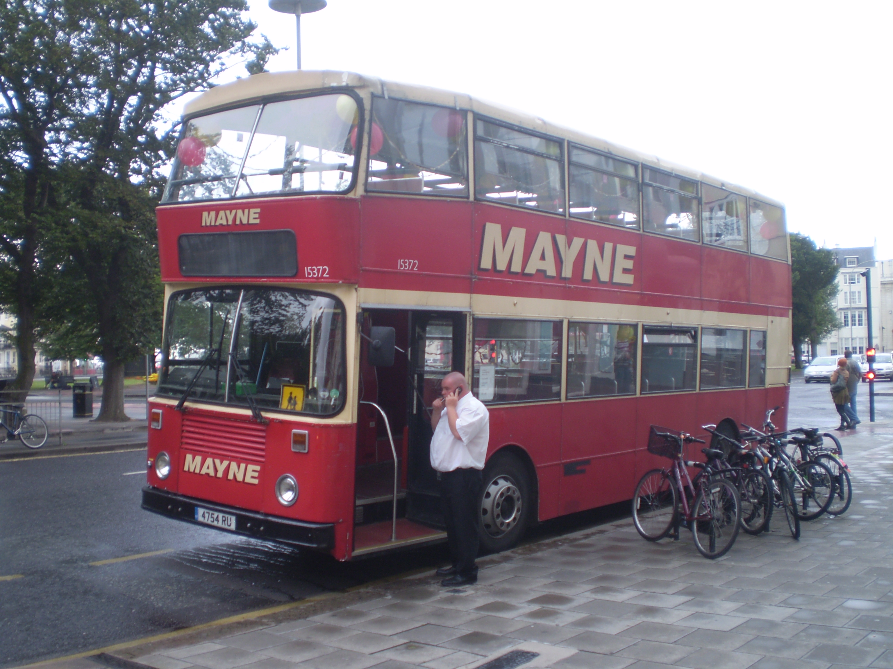 Stagecoach Manchester/Mayne bus 15372 (reg. 4754 RU), a 1988 Scania N112DR double-decker with East Lancs '1984-style' body (#A8405). It was new to Brighton & Hove as fleet number 705, registered E705 EFG. Despite the fact Stagecoach completed the purchase of Mayne's in January 2008, it was here in July 2009 still in Mayne's livery. The only sign of Stagecoach ownership is the national fleet number 15372. The party balloons suggests it might have already been withdrawn from public transport use, and was now presumably engaged only a private hires like this, pending sale or scrap. By 2013 it was in the ownership of Heritage Coaches of Partridge Green.